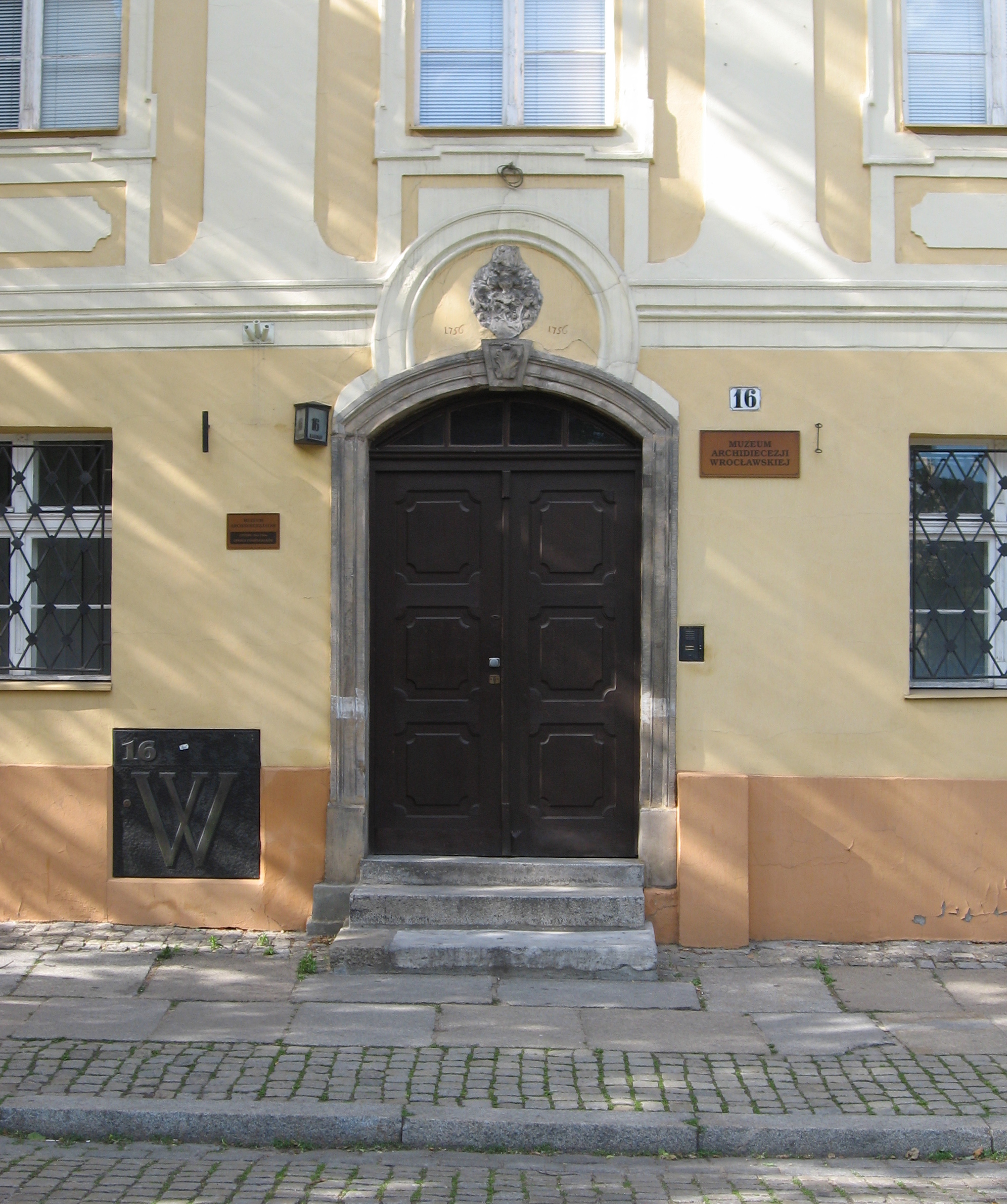 Entrance to Archdiocesan Museum in Wrocław.